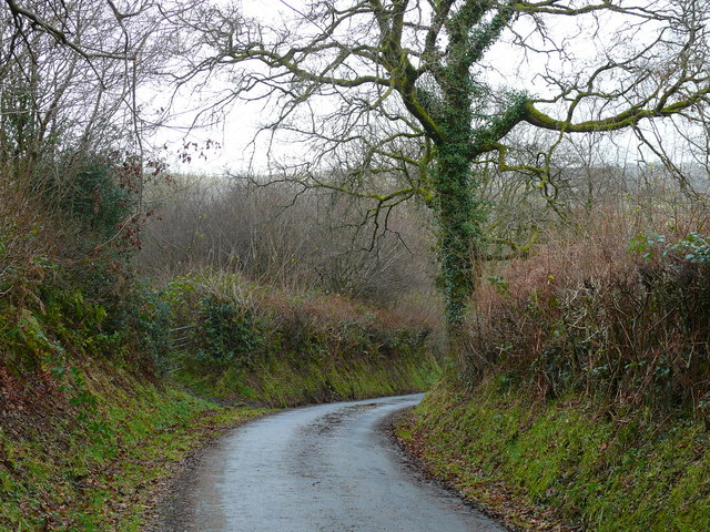 Coedwig ger Llansadwrn / Woodland near Llansadwrn Coedwig ar bob ochr y lon ger Llansadwrn / Woodland on both sides of the road near Llansadwrn.